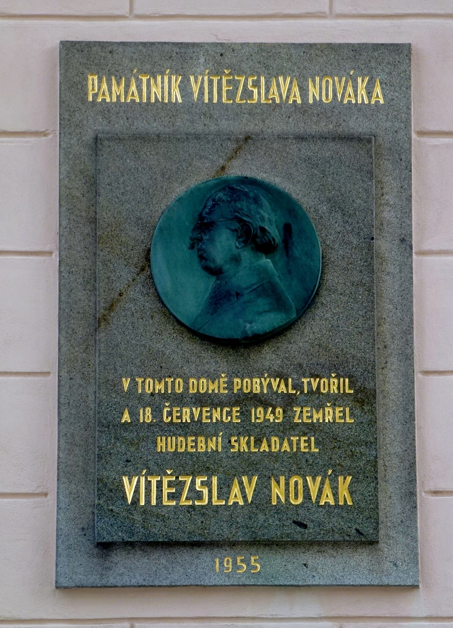 Vítězslav Novák (1870 - 1949), composer and teacher, a memorial plaque in Skuteč. Photo location - Czechia, Pardubice Region, Skuteč town.